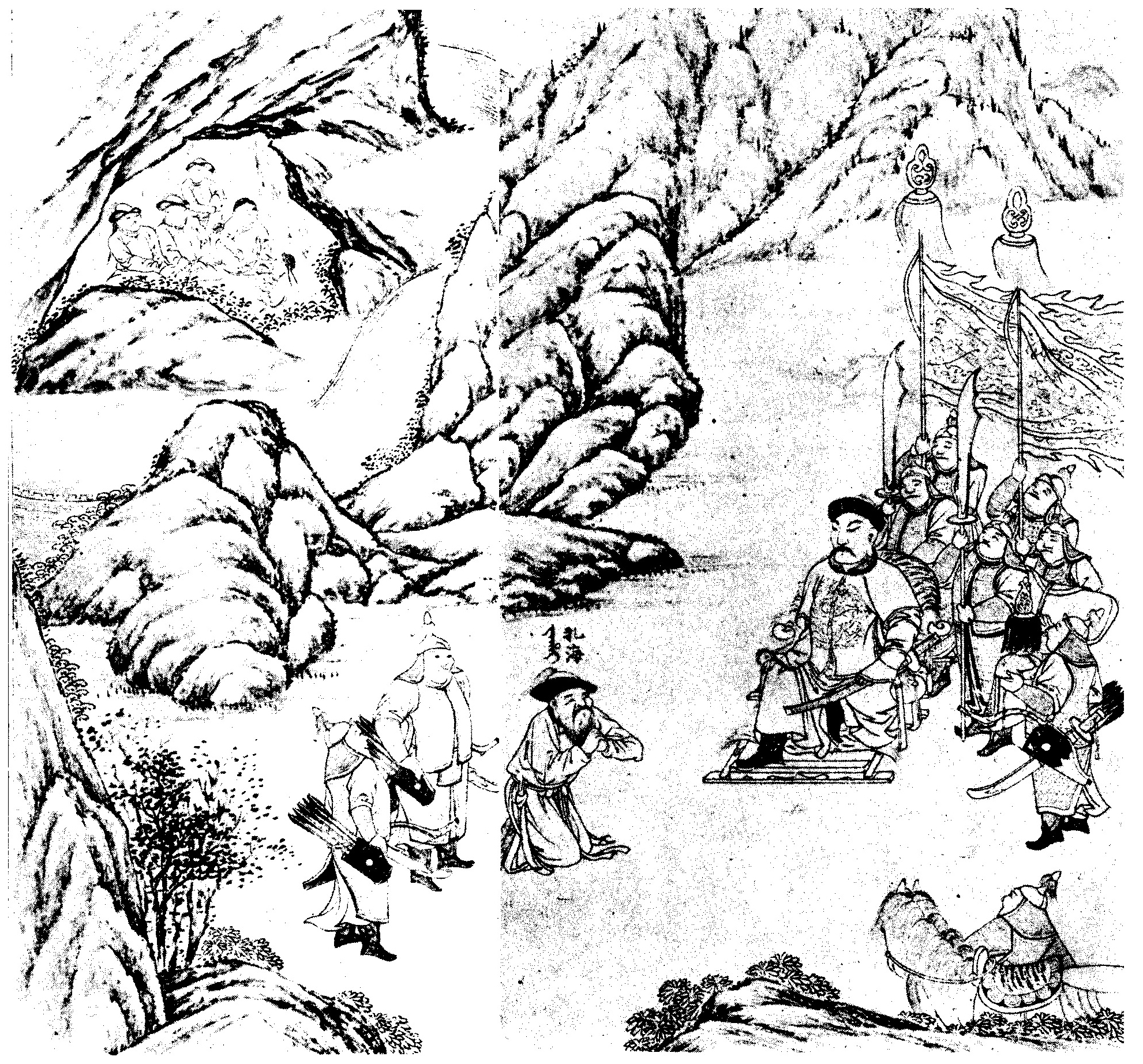 弩尔哈齐招撫扎海